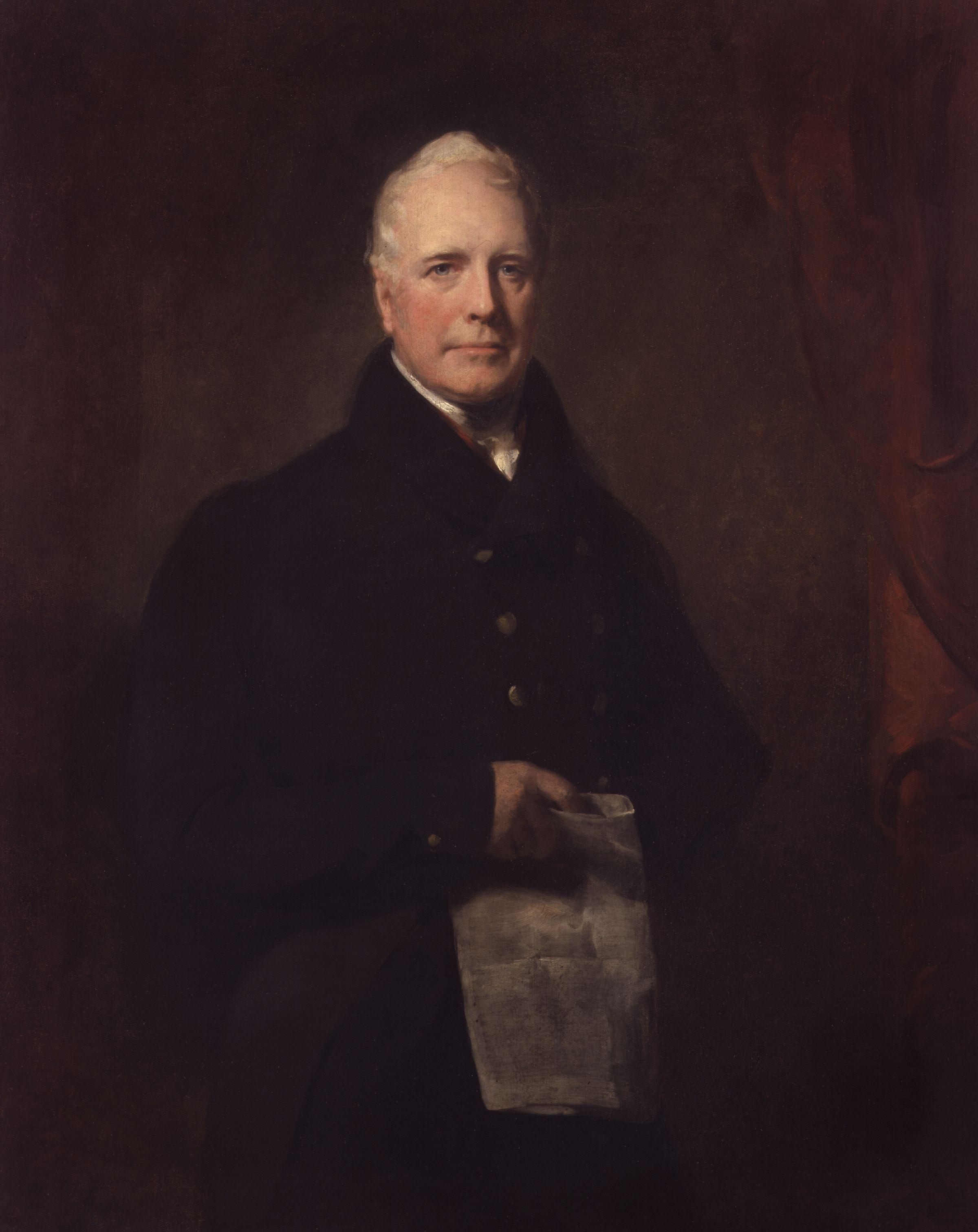 Sir David Baird, 1st Bt, by Sir John Watson-Gordon (died 1864). All images in this batch have been confirmed as author died before 1939 according to the official death date listed by the NPG.